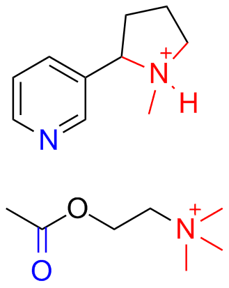 nicotine and acetylcholine molecules